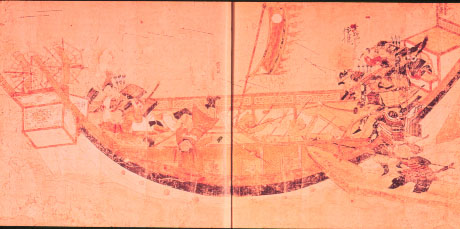 Khubilai’s failed invasion of Japan, painting from Japanese Imperial Collection. One third of the army was drowned when a typhoon struck the invading navy. (RM221)